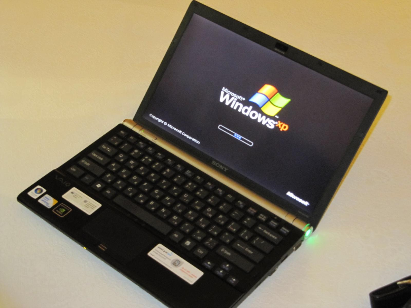 Windows XP booting on Sony Vaio laptop.